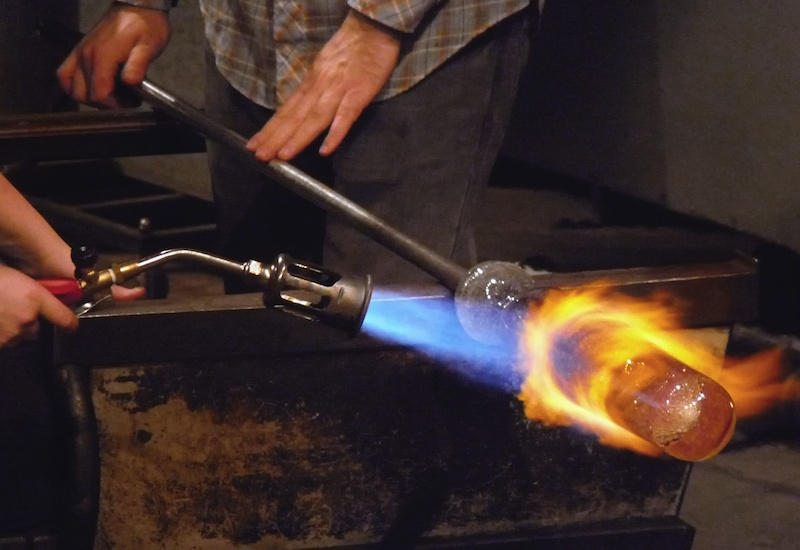 Working in the hot shop at the Museum of Glass - Tacoma, Washington.